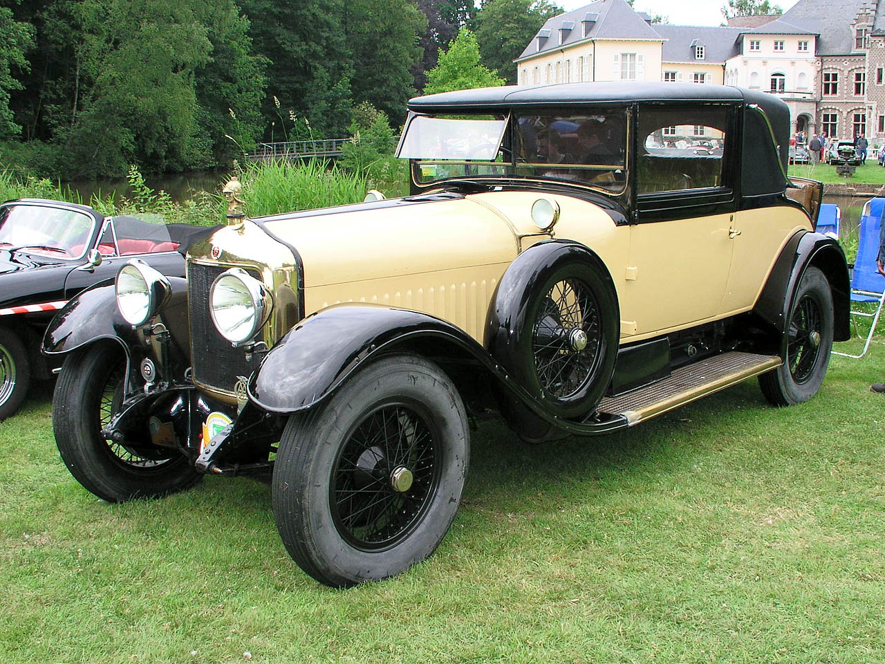 30 HP model powered by a 5355 cc 6-cylinder monobloc engine with sleeve-valves, made in Belgium by Minerva Motors SA; front left-side view